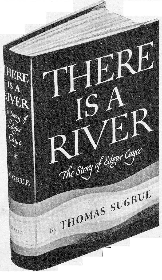 There Is a River Original Book Cover circa 1942 Thomas Joseph Sugrue (1907-1953) is the author of There Is a River, the only biography of Edgar Cayce written during Cayce’s lifetime and the book that made the psychic a household name in 1942. Still available today, his biography of Cayce’s life has touched the hearts of hundreds of thousands.